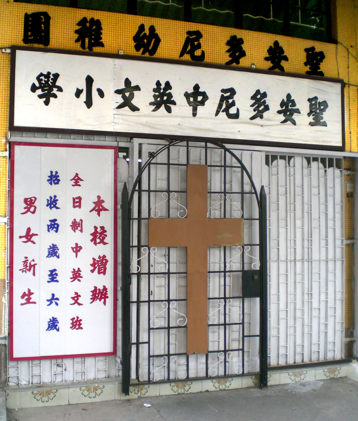 香港島山道聖安多尼中英文小學暨幼稚園